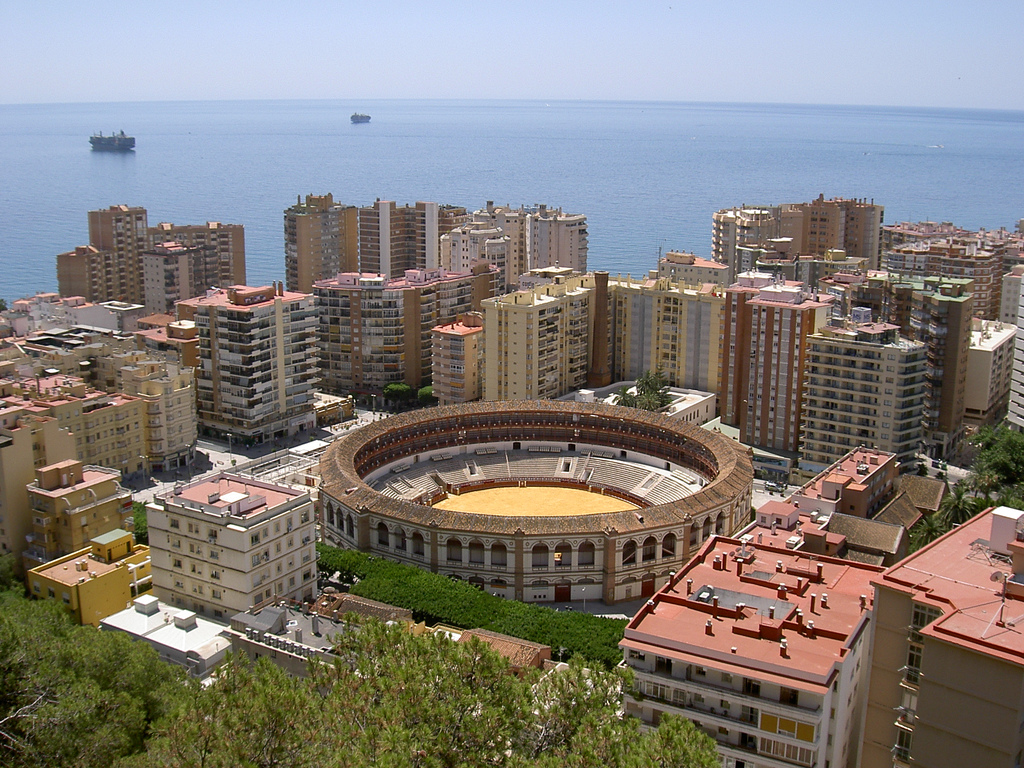 La Malagueta, Málaga, Spain